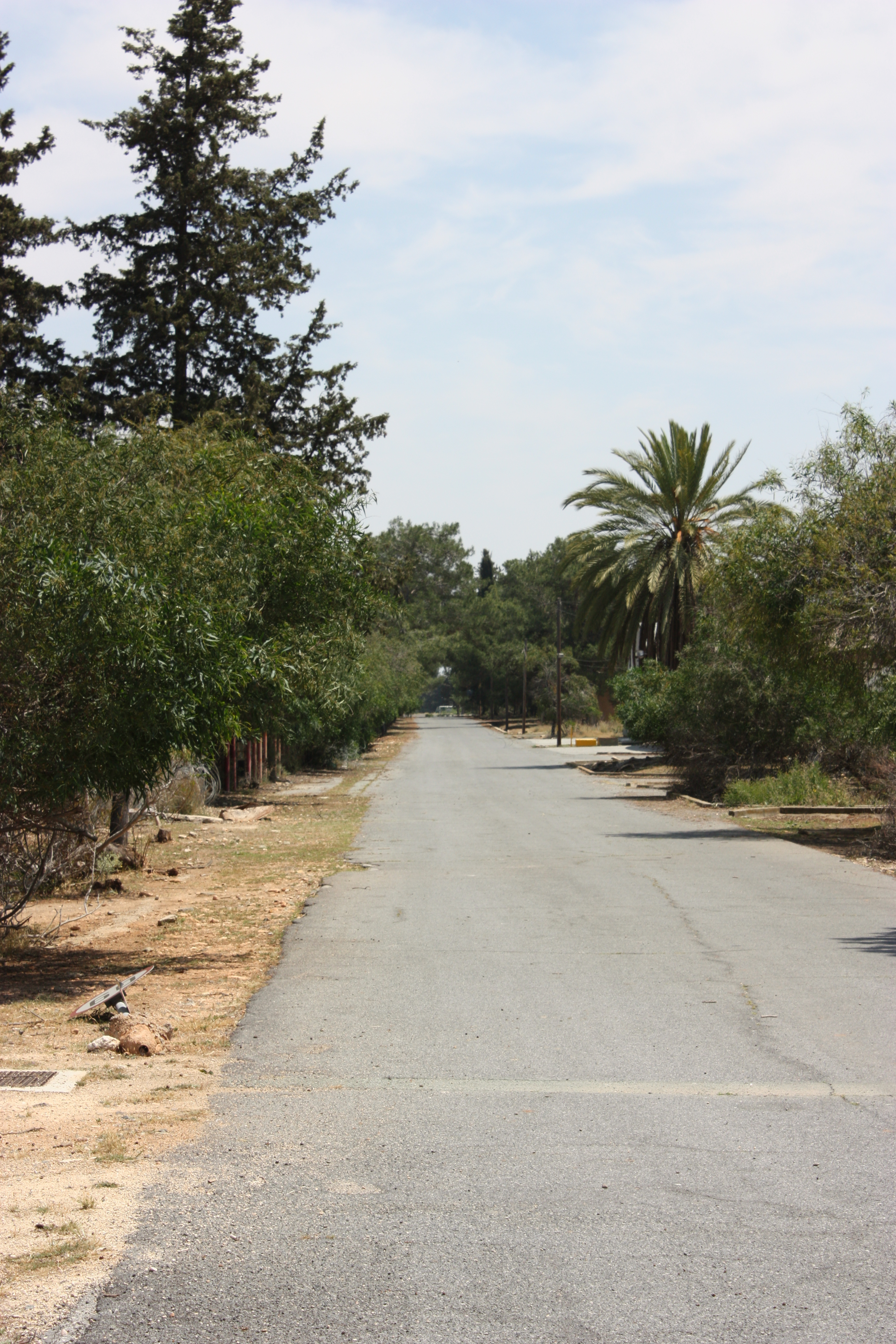 The road to the Blue Beret Camp, HQ of UNFICYP, as seen from the RAF Nicosia control tower.